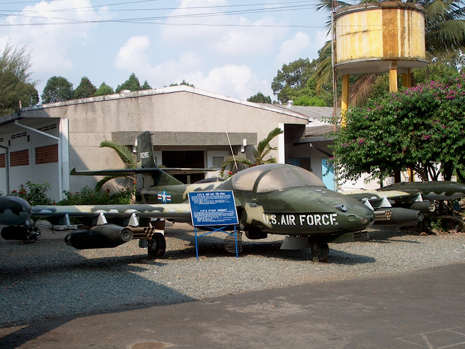 War Remnants Museum, Ho Chi Minh City (Saigon) Vietnam